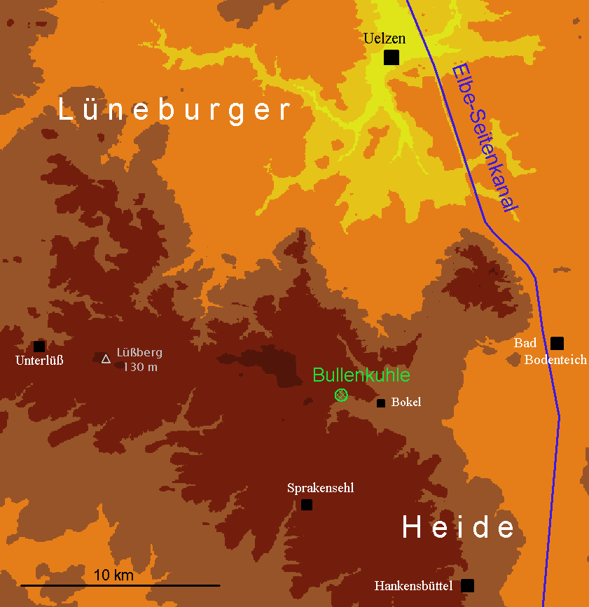 Relief map of the location of the "Bullenkuhle" (orange stands e.g. for heights between 50 and 75 mm AMSL, red-brown for heights over 100 m).